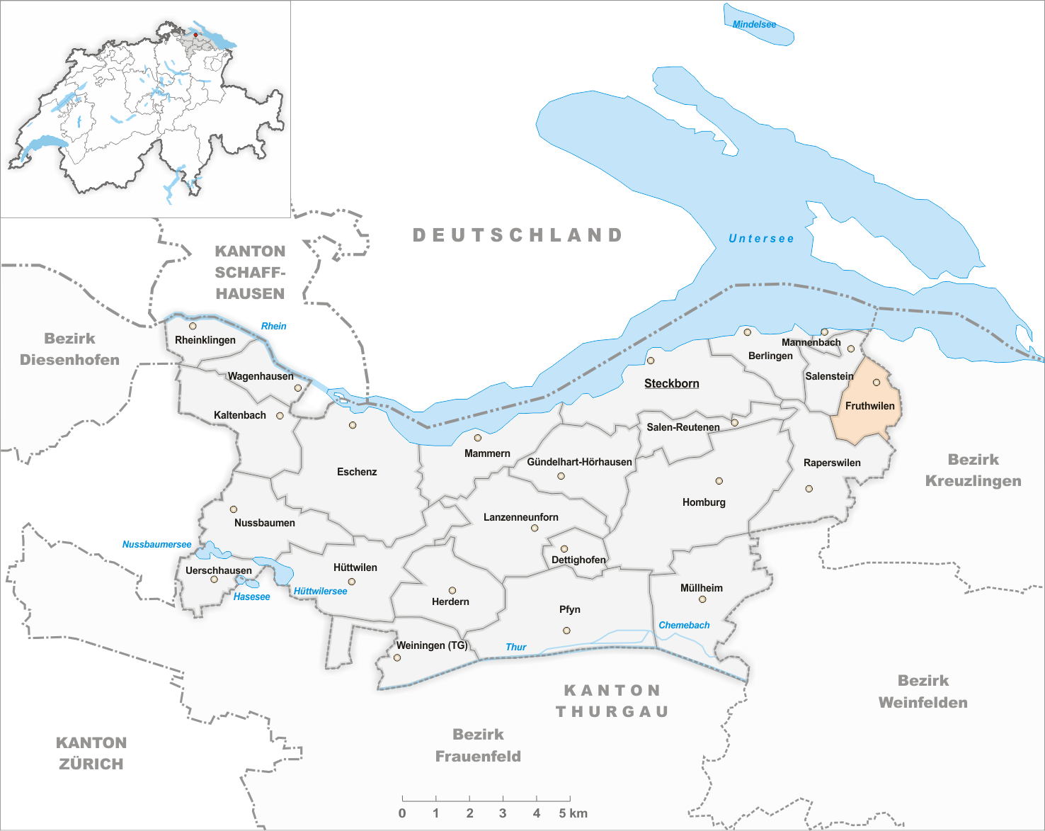 Municipality Fruthwilen